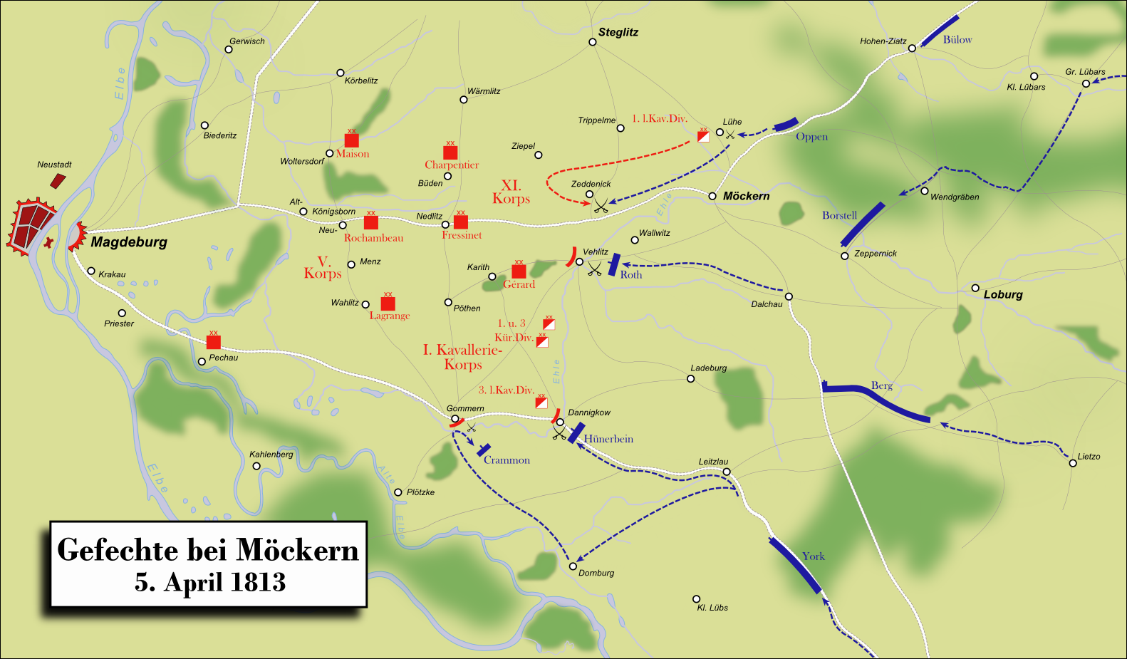 German map showing the Battle of Möckern (April 5th, 1813) during the Napoleonic Wars. It follows a sketch presented in the book: Rudolf Friederich: Die Befreiungskriege 1813–1815, Vol.1, Berlin 1911, p.202/3.